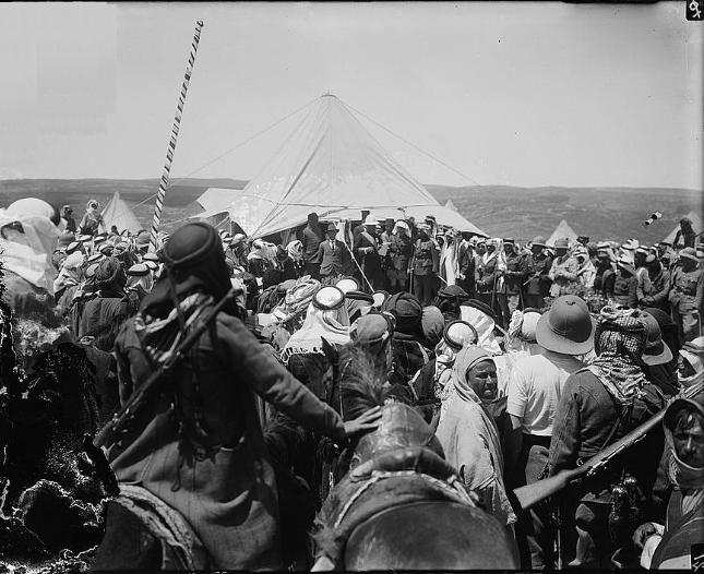 Photographs show meetings between Arab, Bedouin, and British officials around April 17-27, 1921, at Amir Abdullah ibn Hussein's camp at Amman, Jordan. During these meetings British High Commissioner Herbert Samuel proclaimed Amir Abdullah as the ruler of Transjordan, under British protection. Among the persons depicted are, Amir Abdullah, John D. Whiting, possibly Sheik Sultan of the Belka, Sultan ibn 'Ali id Diab ul 'Adwan, Amir Shaker bin Zeid (future Regent of Transjordan), Bedouin chief Auda Abu Tayi, Sheik Majid Pasha el Adwan, Herbert Samuel, British civil administrator Wyndham Deedes, British diplomat Albert Abramson, T. E. Lawrence (Lawrence of Arabia), and possibly Iraq civil administrator Gertrude Bell. Also shown are horse racing, an airplane landing at Abdullah's camp, Circassian leaders, Abudullah's bodyguard on camels, and Herbert Samuel reading his proclamation of Abdullah as leader of Transjordan.